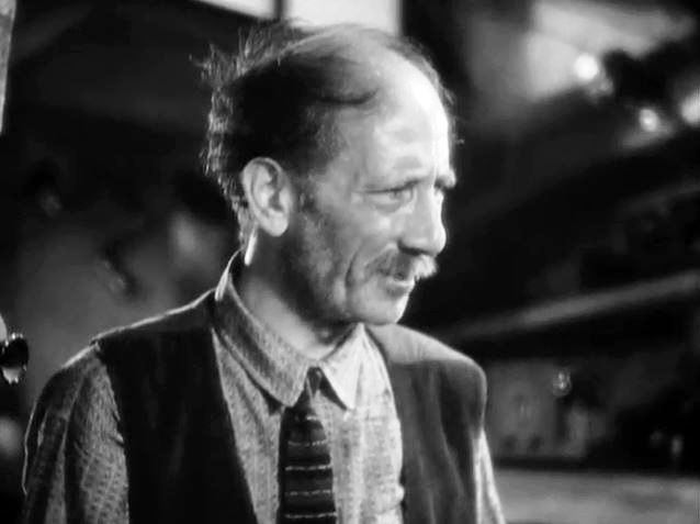 Low resolution screenshot of Egon Brecher from the American film Charlie Chan's Secret (1936) where he portrayed the estate caretaker named Ulrich. The film is in the public domain due to the omission of a valid copyright notice on its original prints.